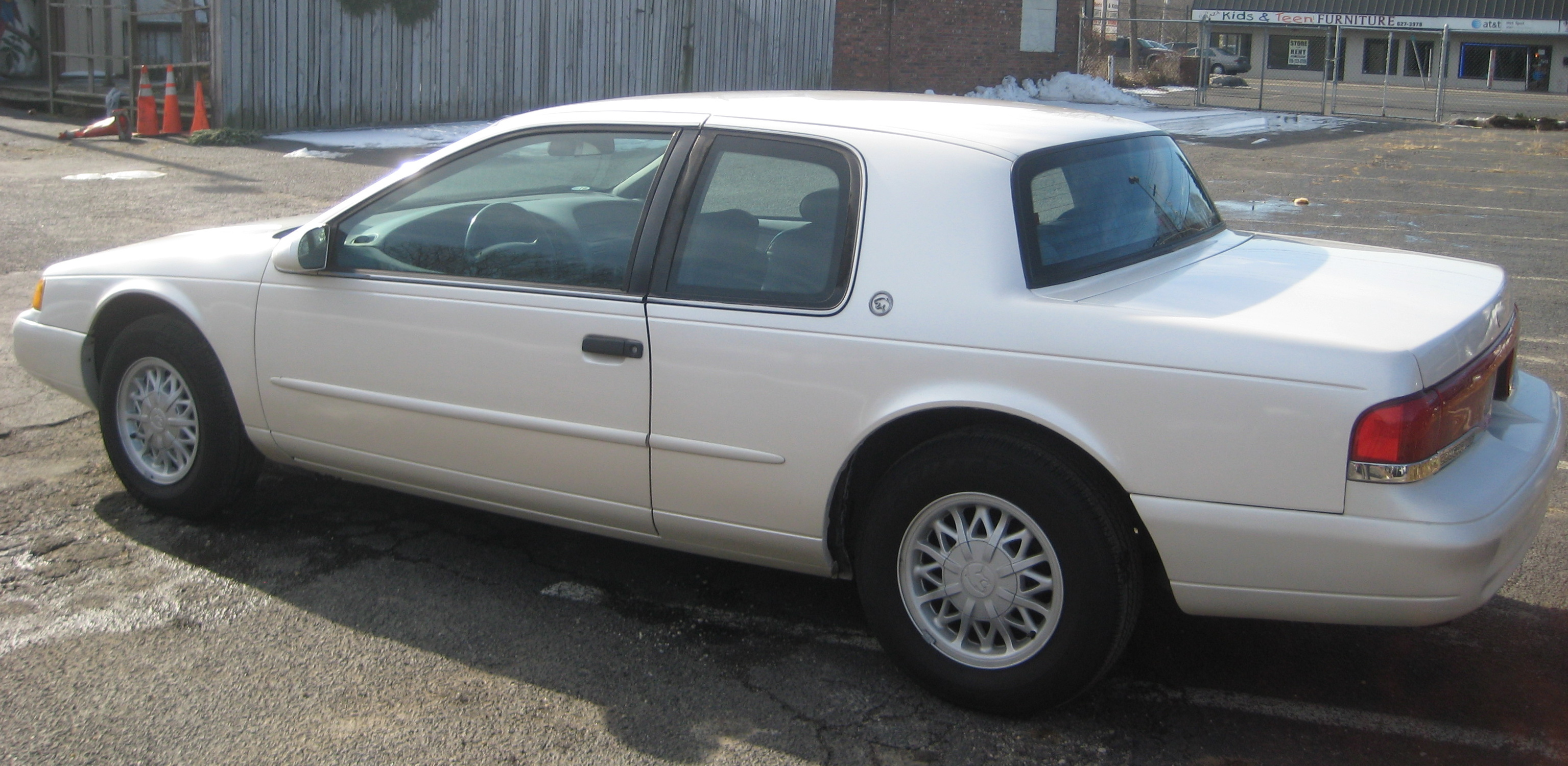 1995 Cougar XR-7